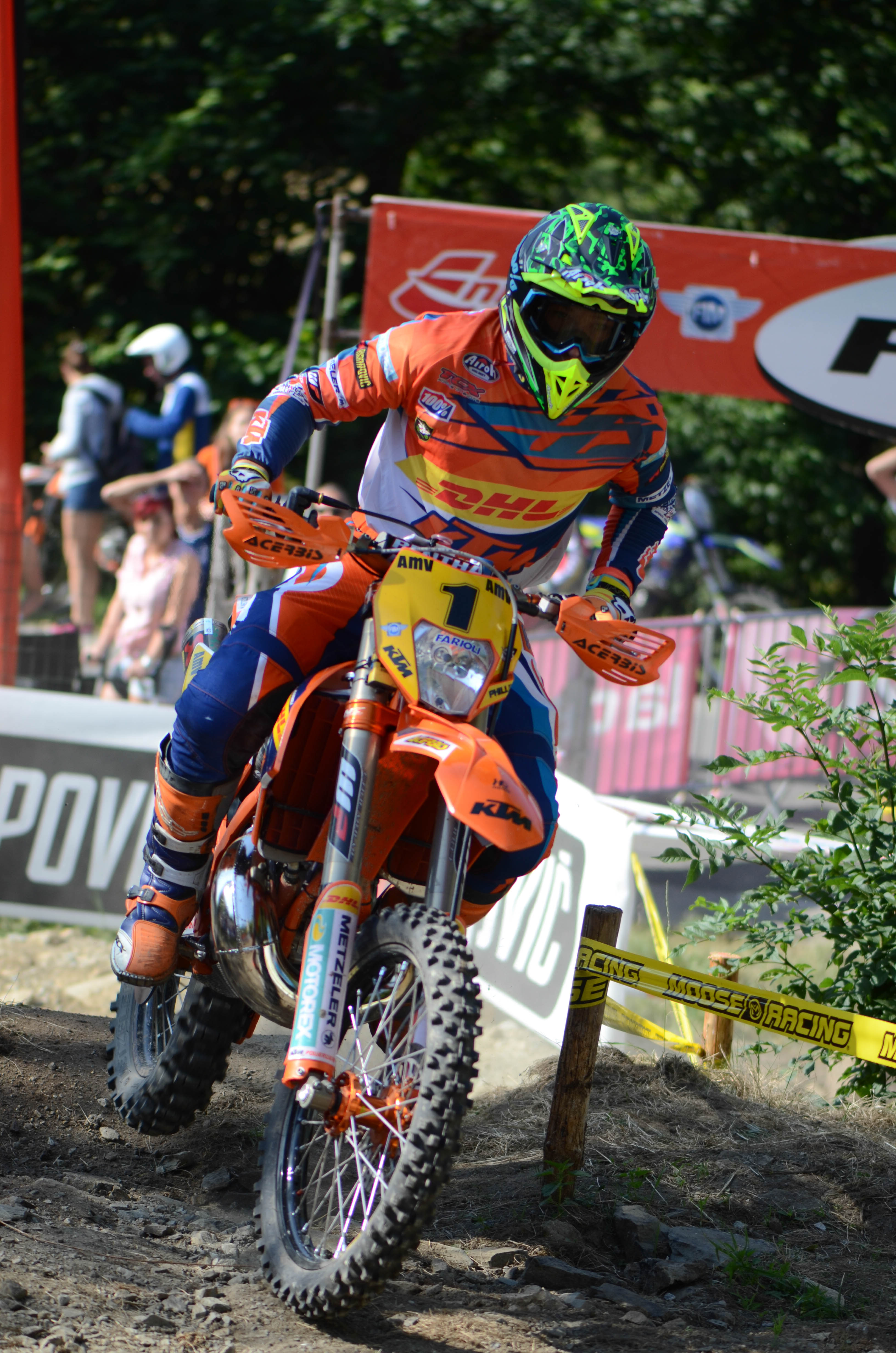 Matthew Phillips during the 2015 GP FunnelWeb Filter of Belgium